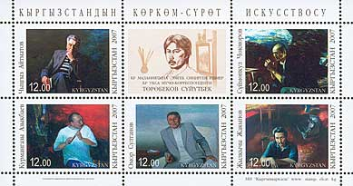 Stamp of Kyrgyzstan